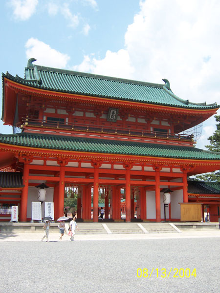 Main gate of Heian-jingu, a shinto shrine in Kyoto